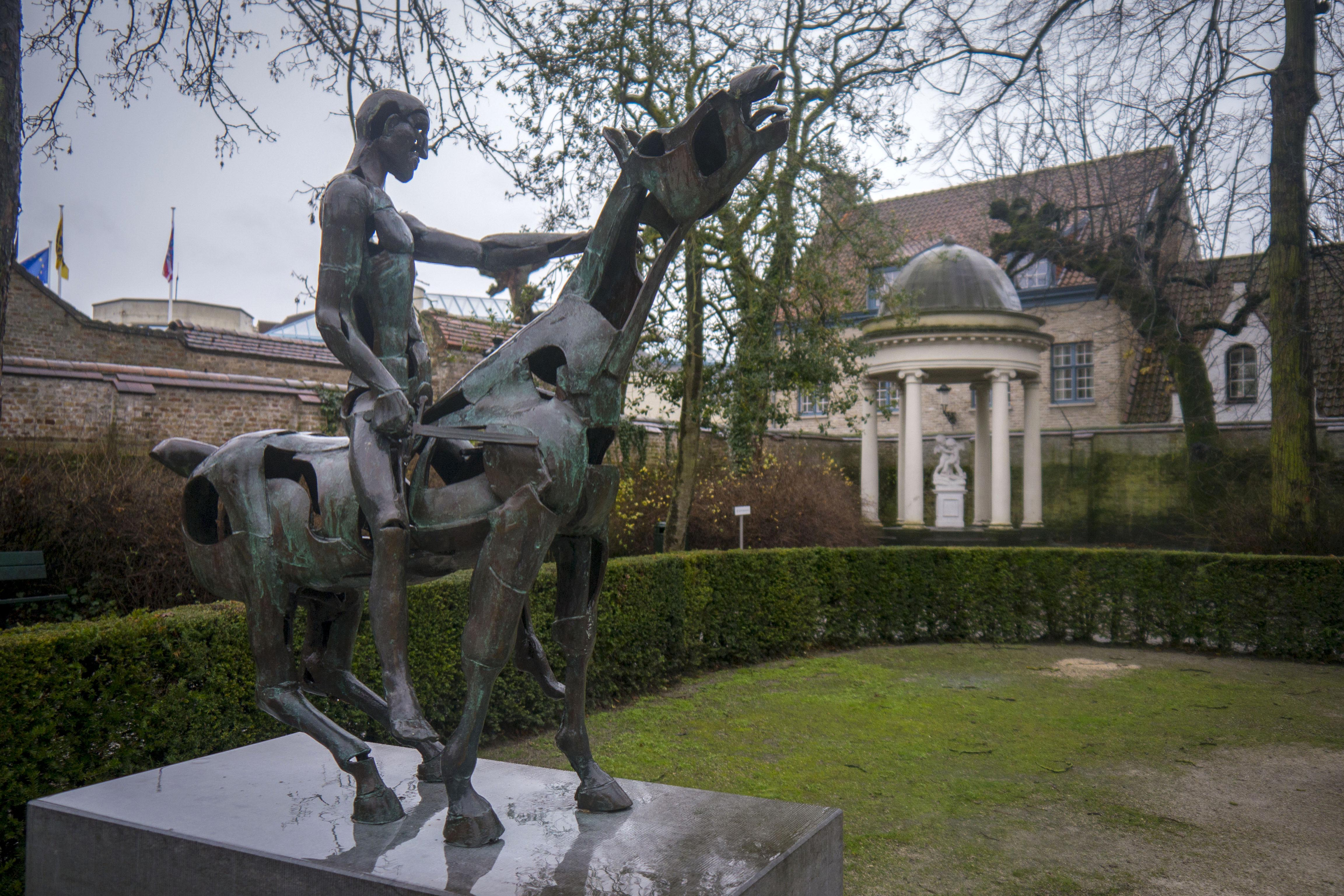 Belgium 2013